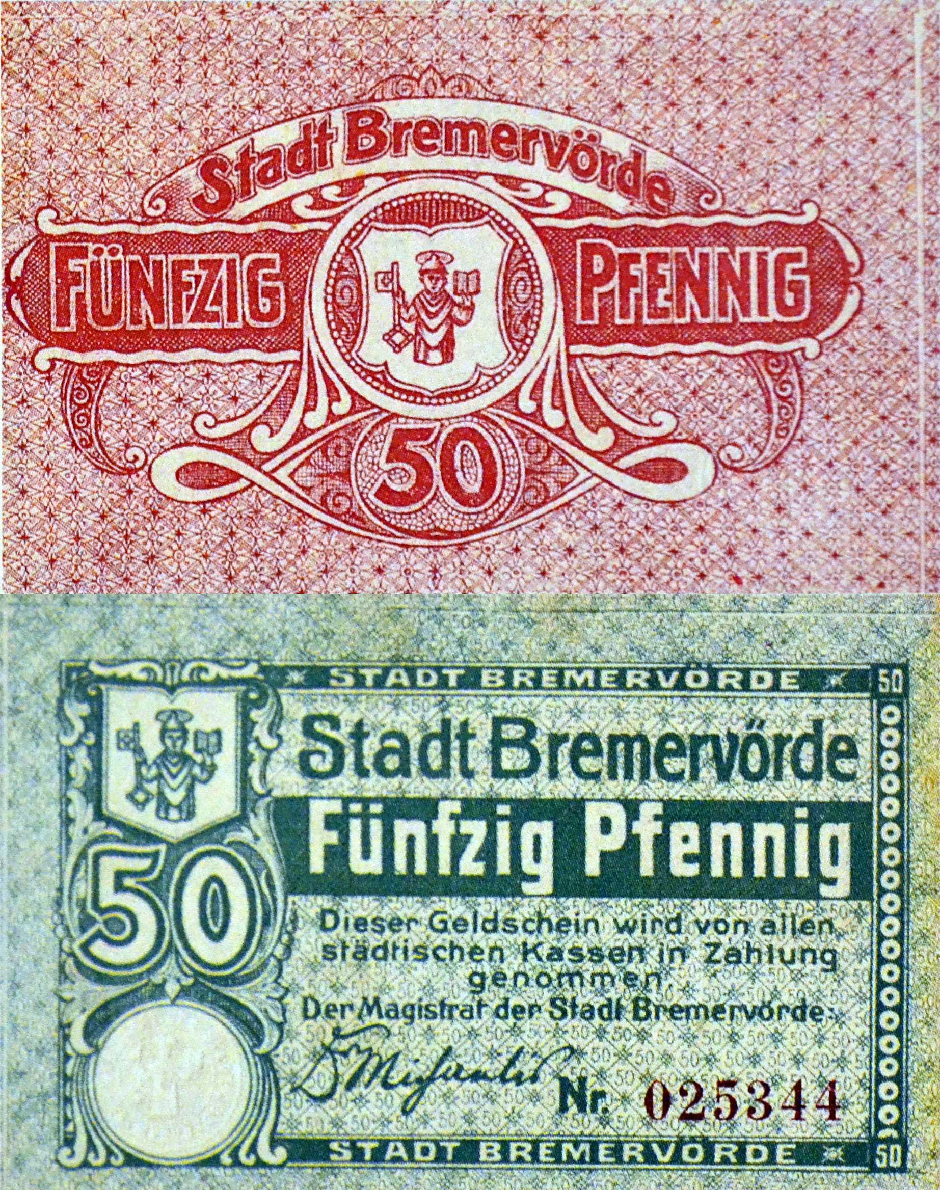 This image schows the front- and backside of a 50-Pfennig money property which was given out by the town Bremervörde.